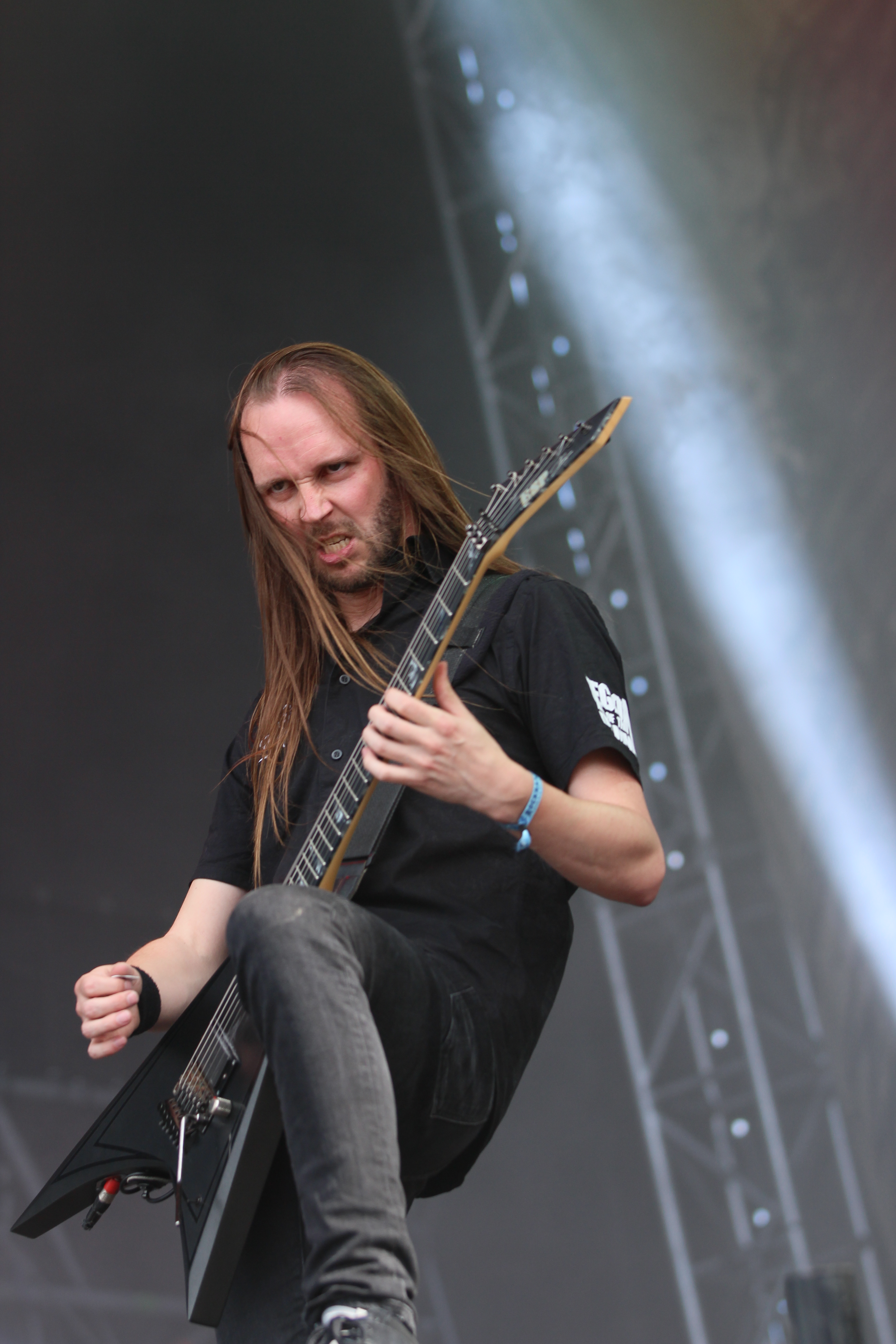 The Dutch death metal/thrash metal band Legion of the Damned at the Rockharz Open Air 2014 in Ballenstedt/Germany